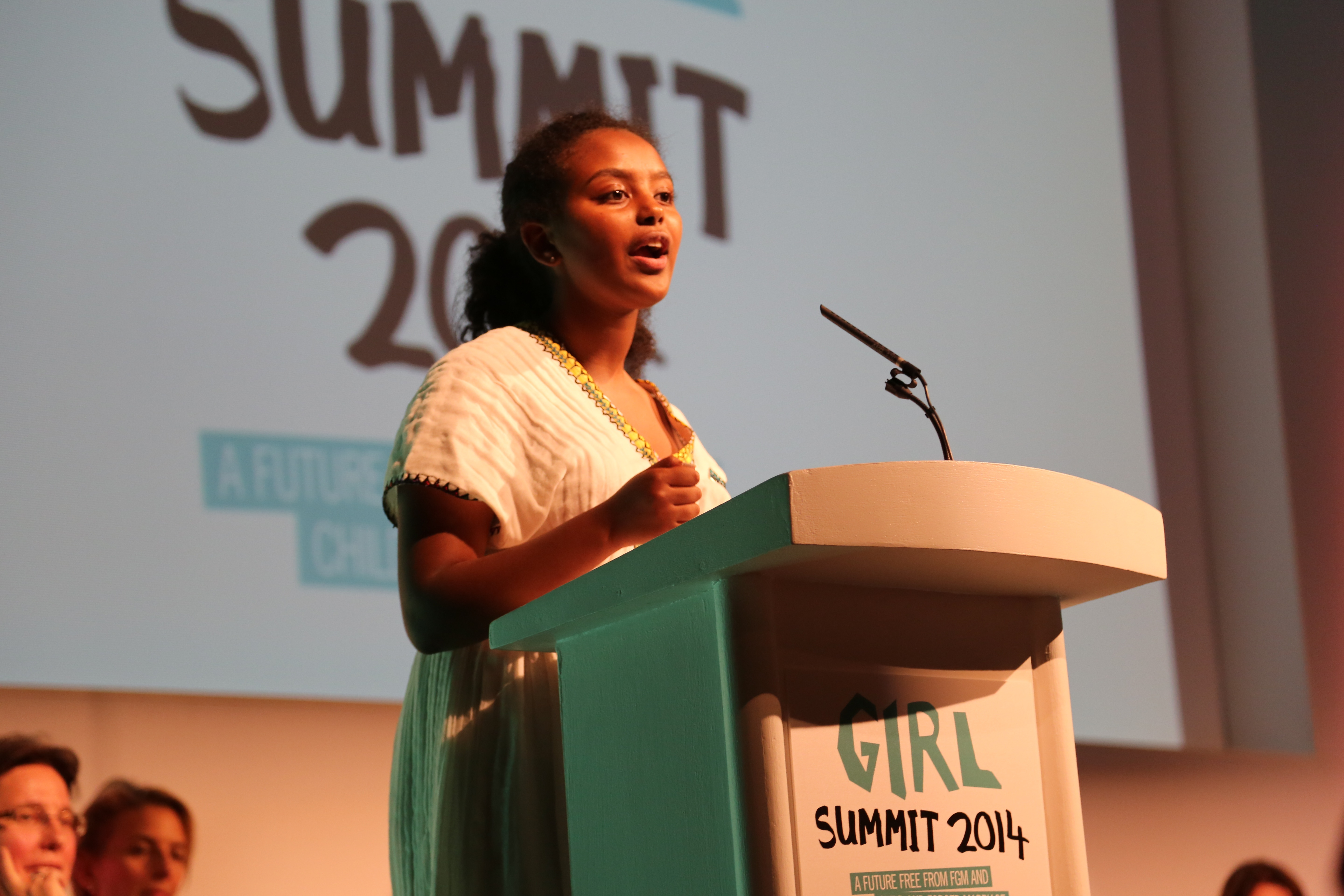 Picture: Marisol Grandon/Department for International Development. Available free under the terms of Crown Copyright/Open Government License/Creative Commons - Attribution